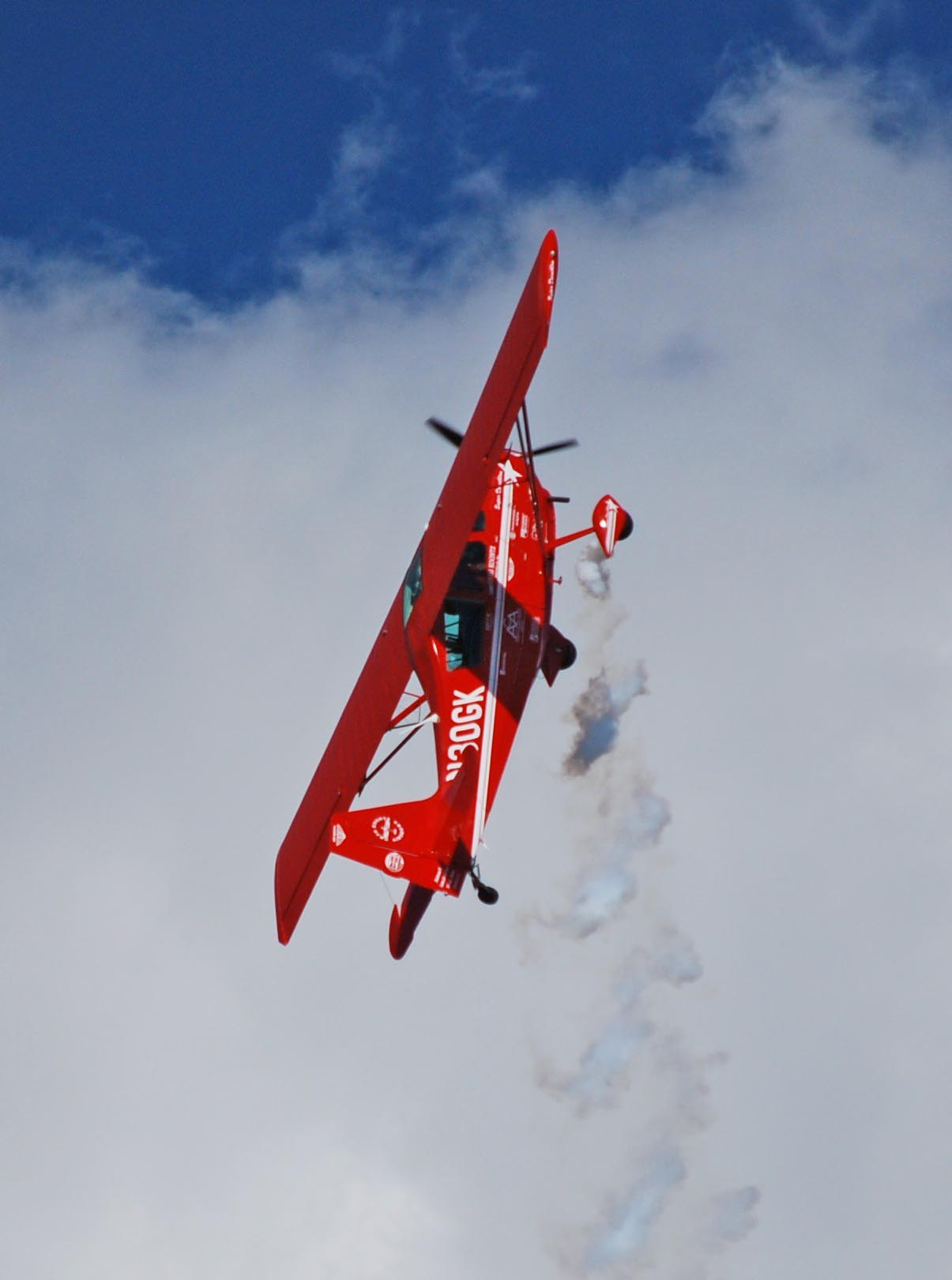 American Champion 8KCAB Super Decathlon performing at AirVenture Oshkosh in Oshkosh, Wisconsin July 31, 2008